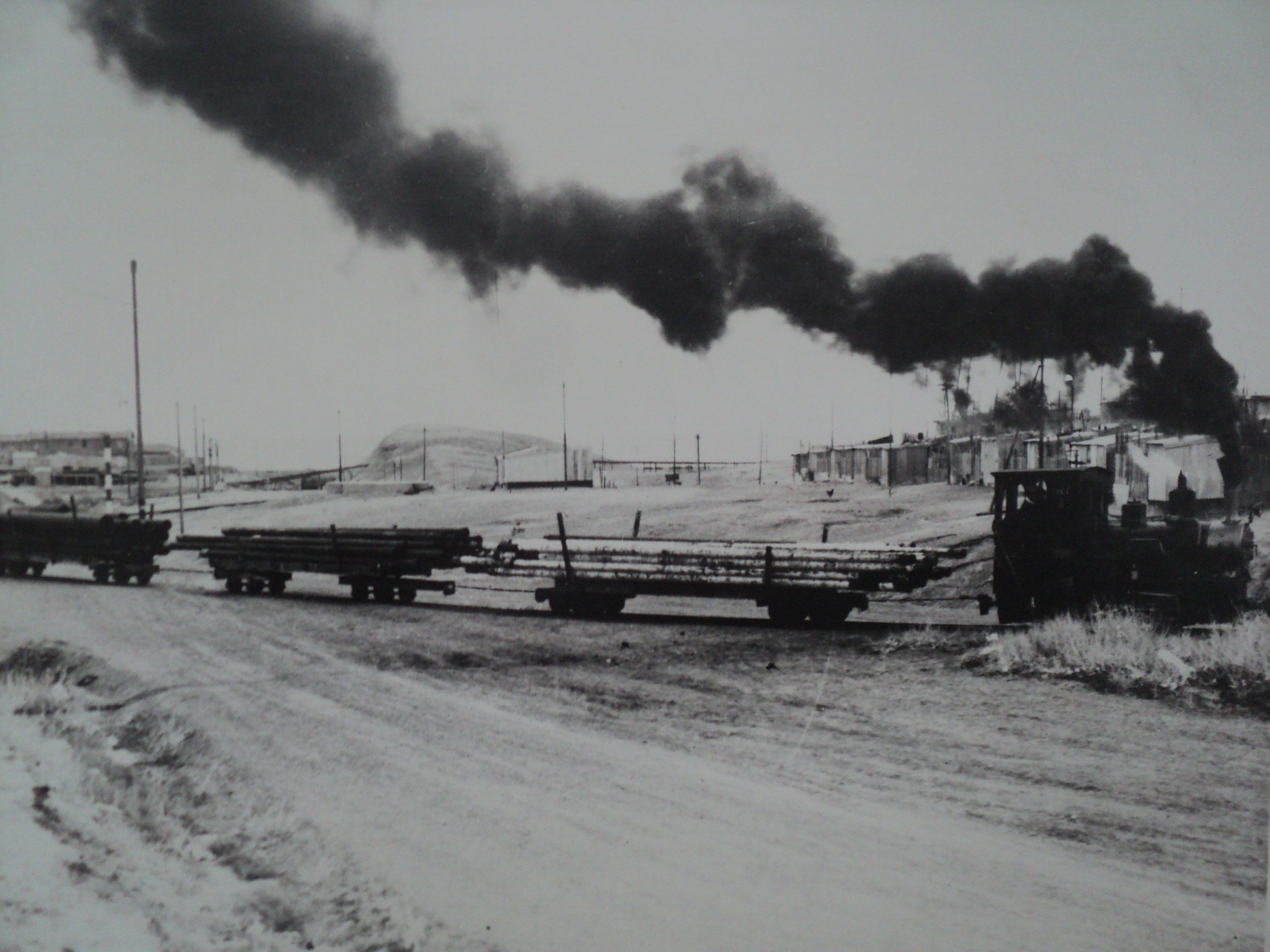 YPF's freight train crossing the Km. 3 district in Comodoro Rivadavia, Chubut, Argentina.